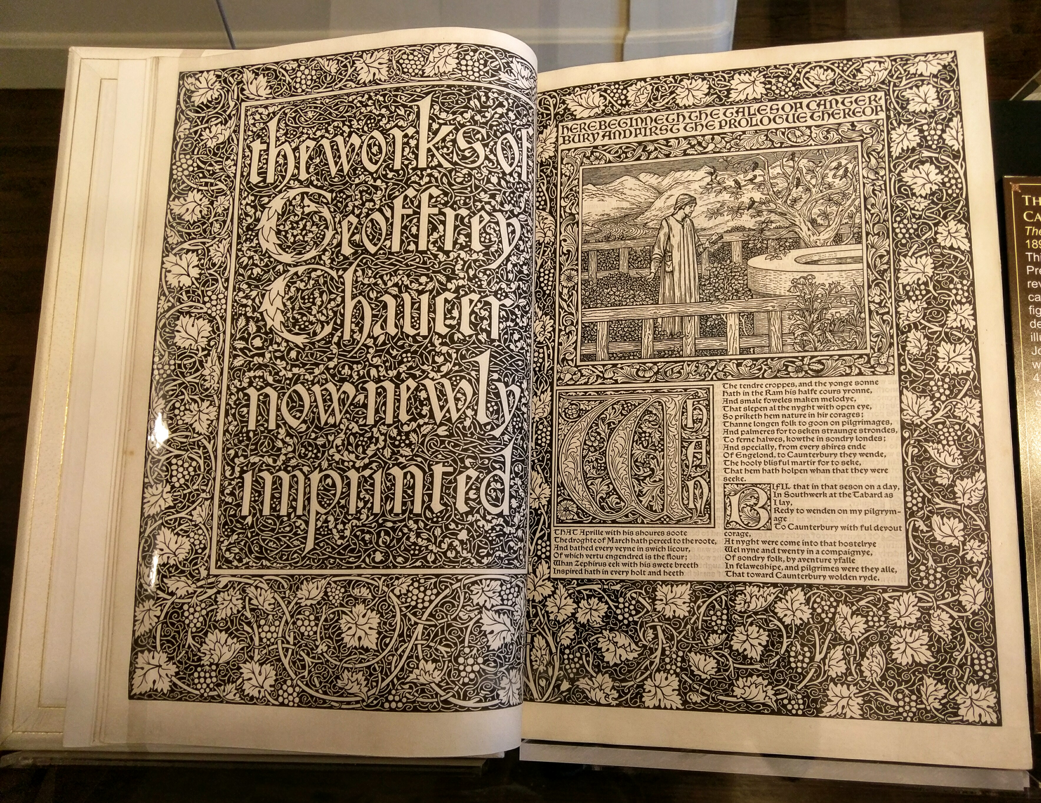 The title pages of "The works of Geoffrey Chaucer now newly imprinted", published by Kelmscott Press in 1896 in an edition of 425 copies. These pages were designed by William Morris. This copy is owned by the California State Library. Photo by Jim Heaphy.